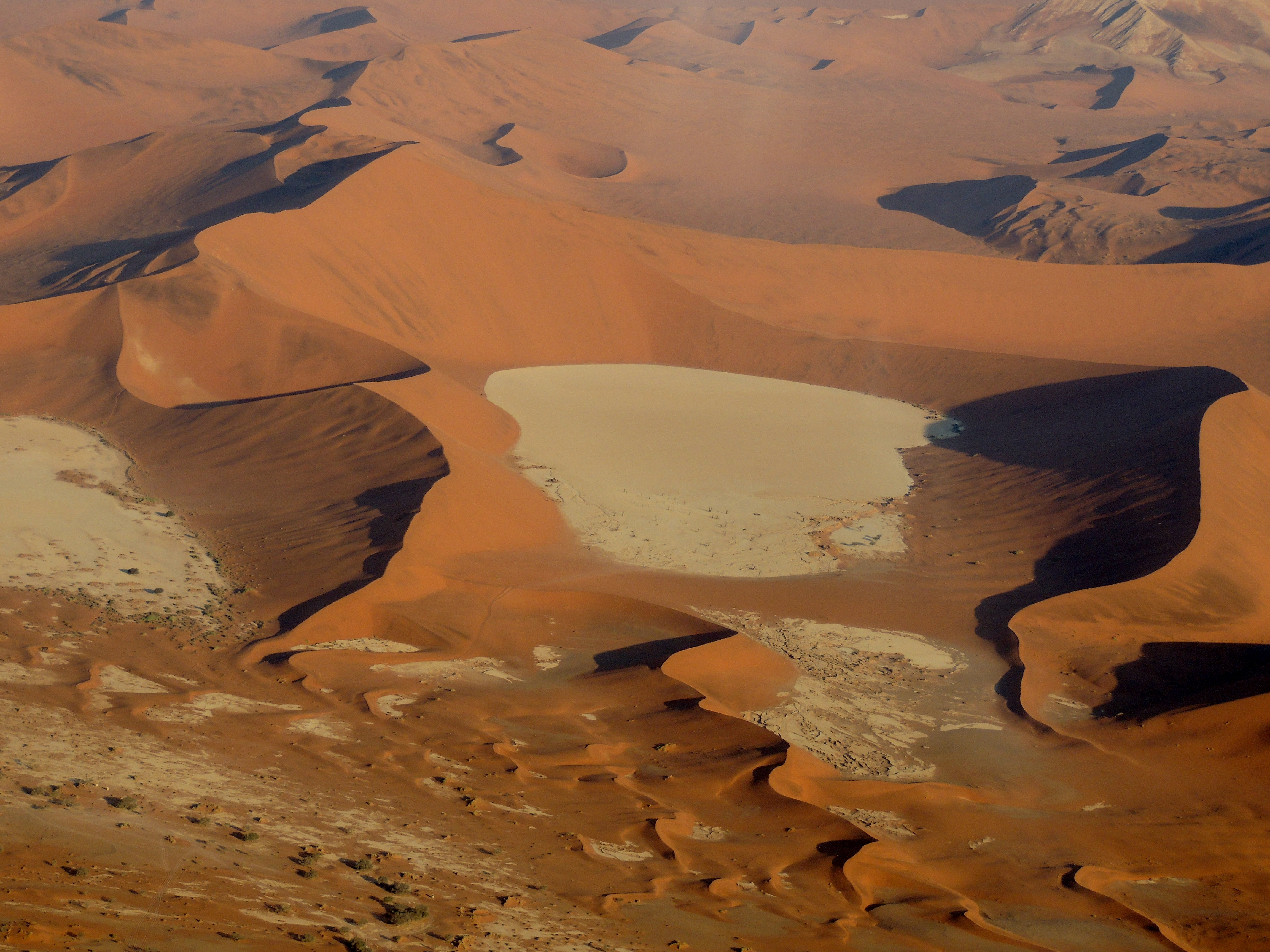 Namib desert 3